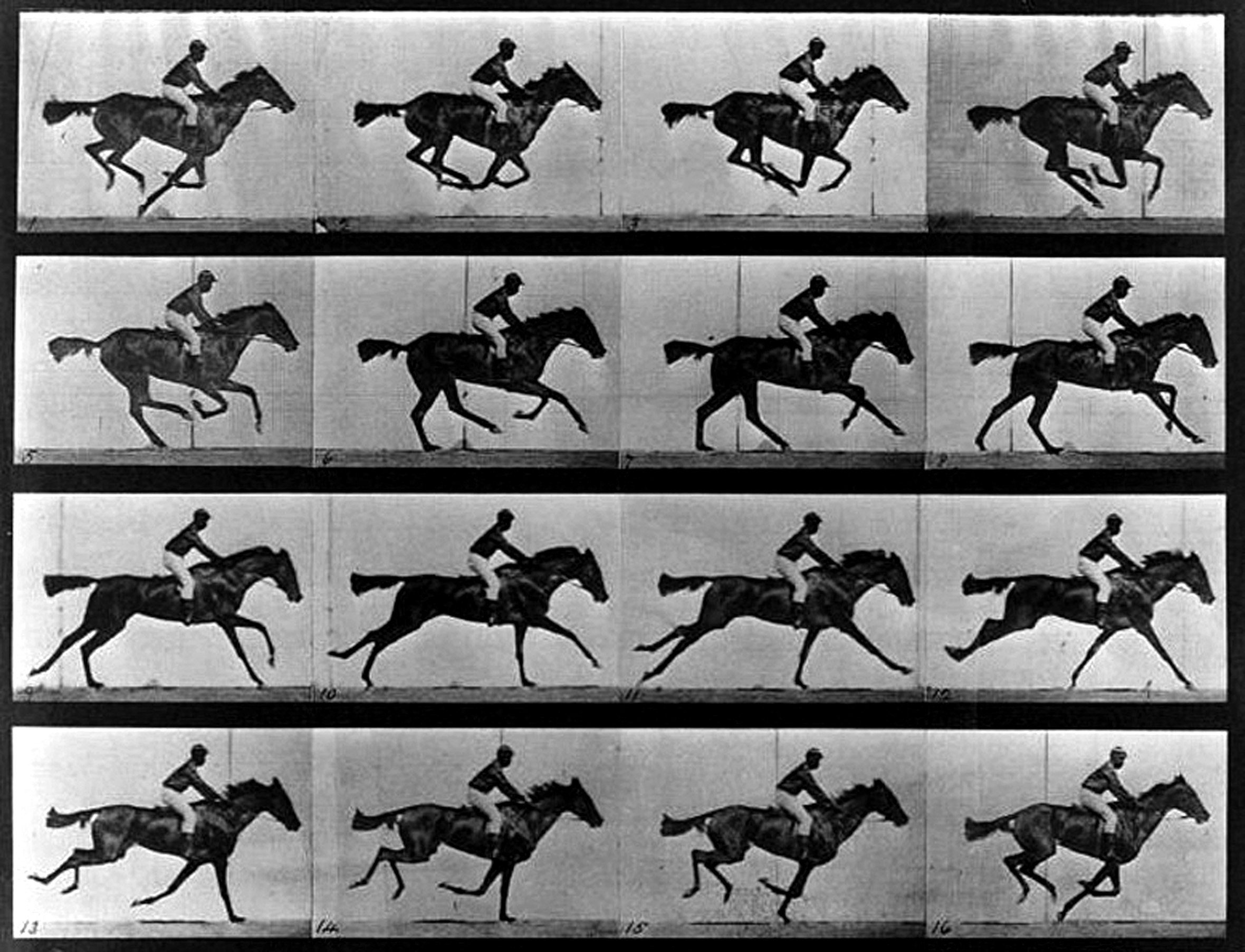 Muybridge Photography